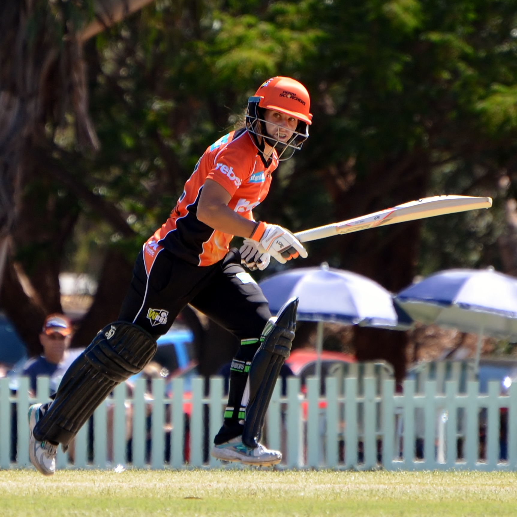 Nicole Bolton on her way to top scoring with 53 for Perth Scorchers (WBBL) against Sydney Thunder (WBBL) at Lilac Hill Park, Perth, Australia.